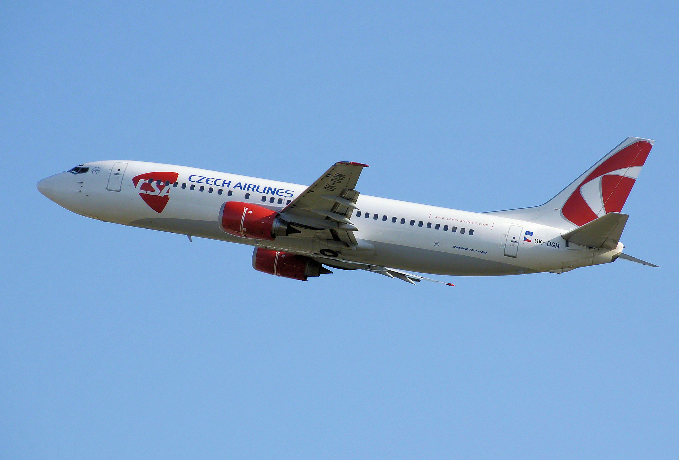 CSA Czech Airlines Boeing 737-400 (OK-DGM) takes off from London Heathrow Airport.